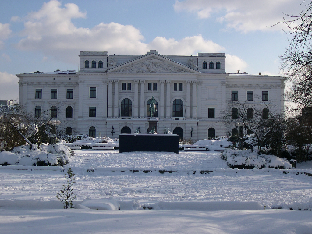 Rathaus Altona